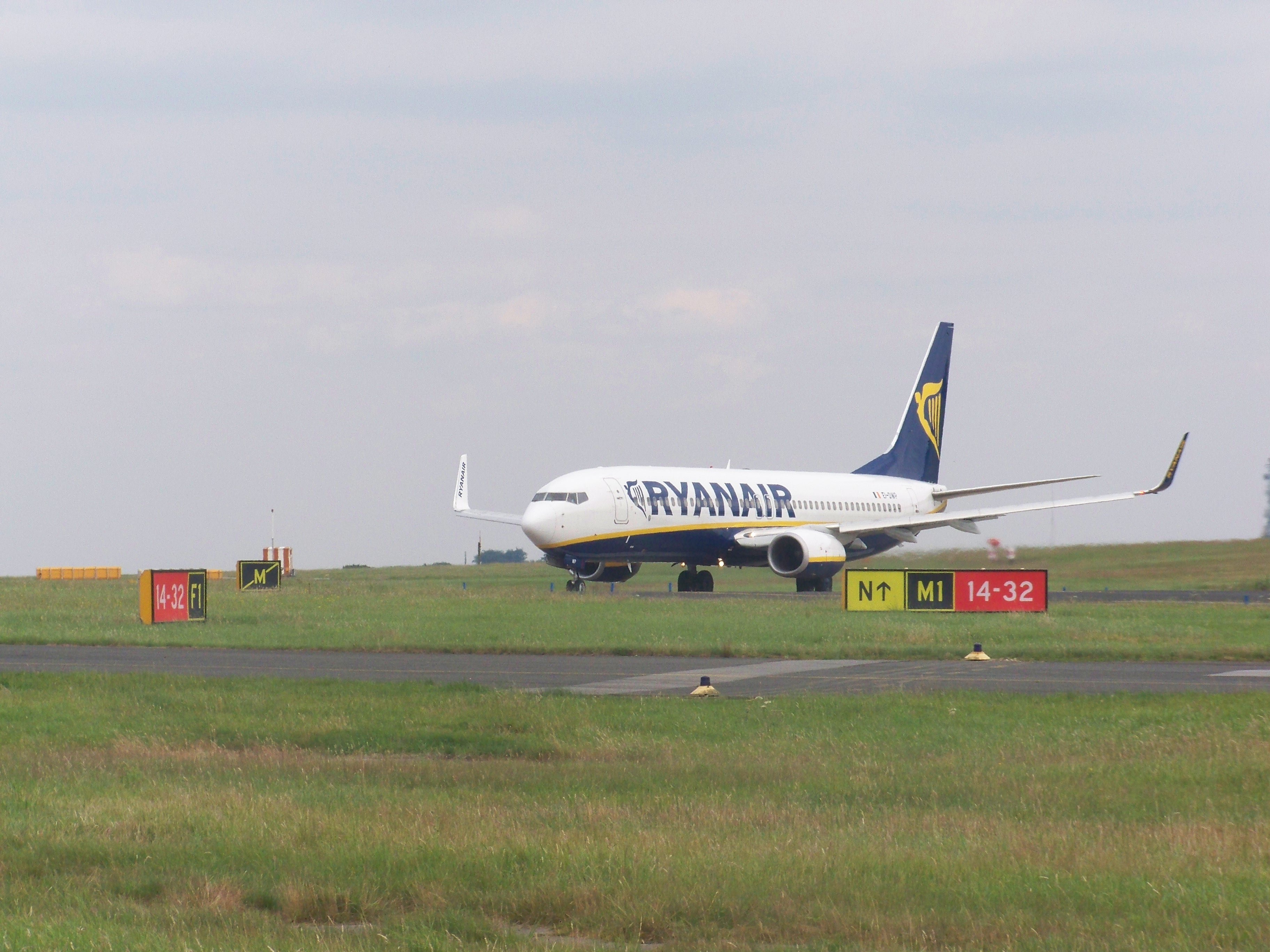 A Ryanair Boeing 737-800 taking off from Leeds Bradford International Airport. Taken on the afternoon of Saturday the 27th of July 2010.